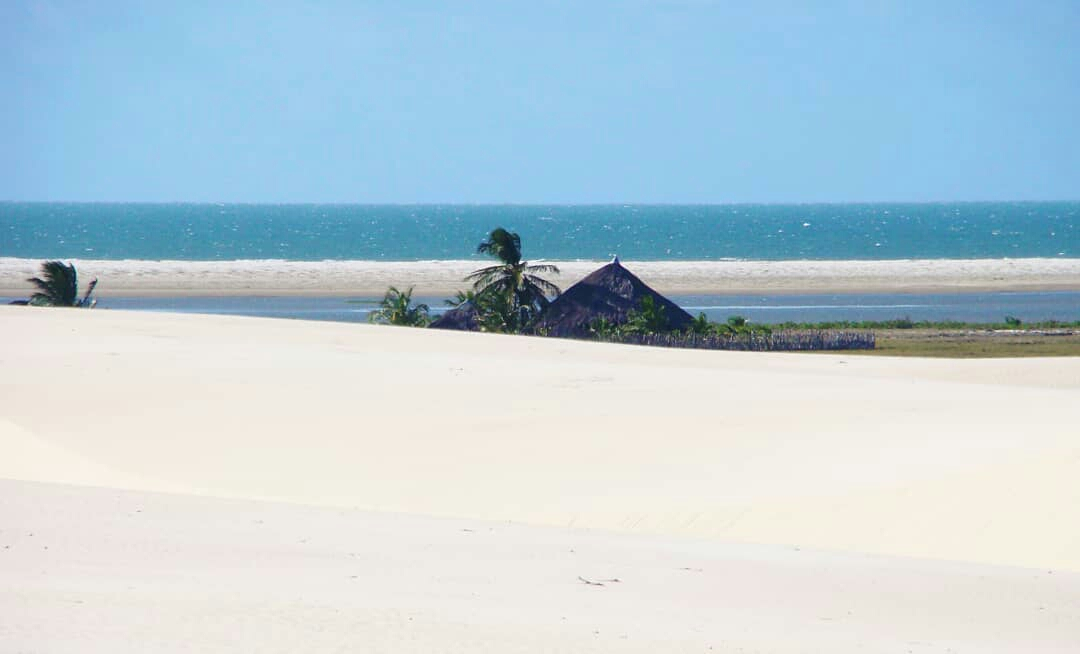 Atins praia